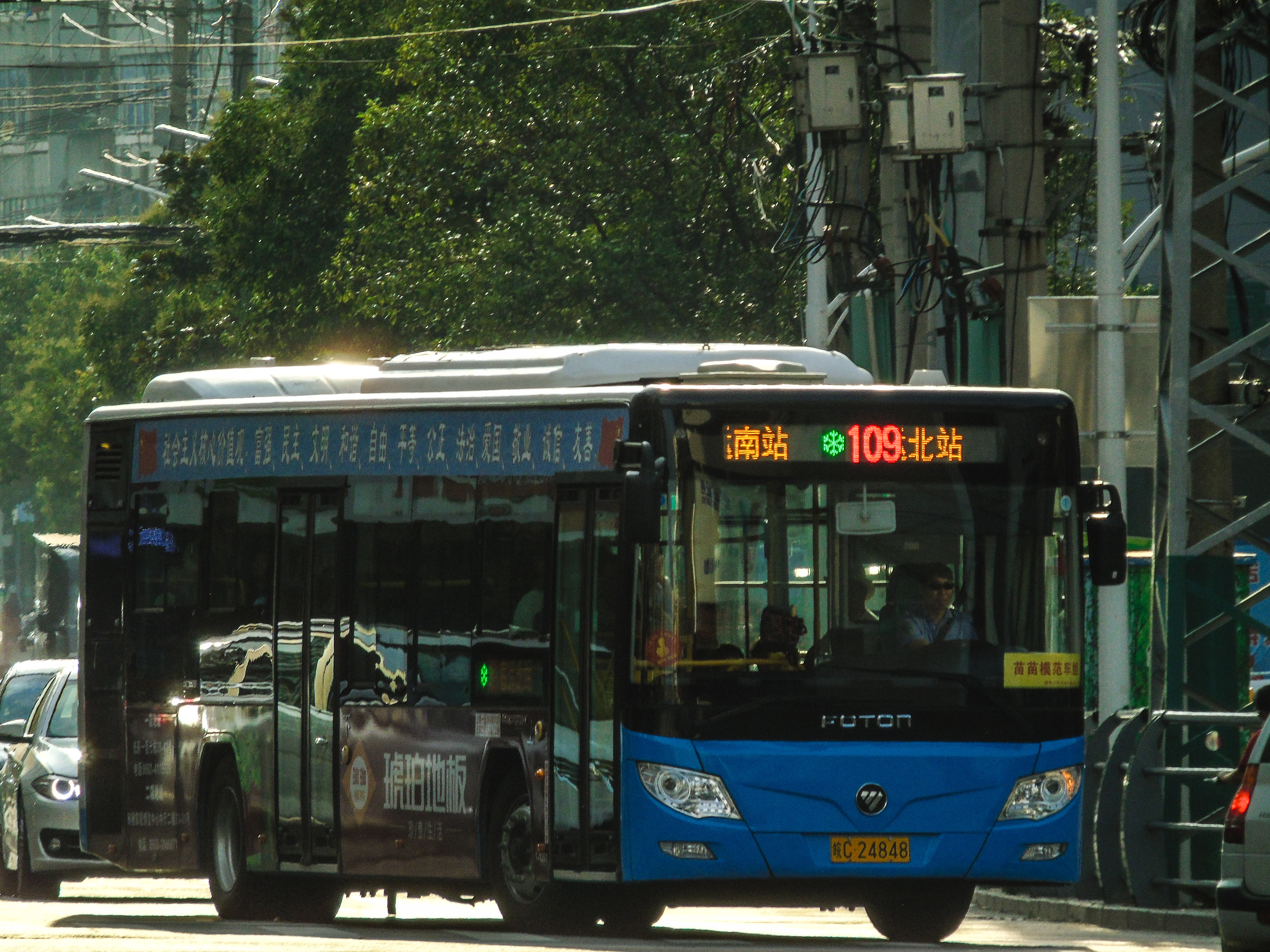 Bengbu Bus No.109 at Bengbu Railway Station